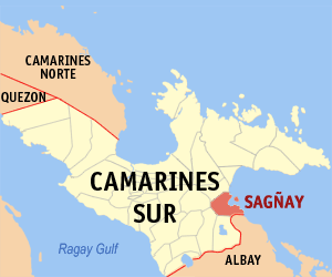 Map of Camarines Sur showing the location of Sagñay